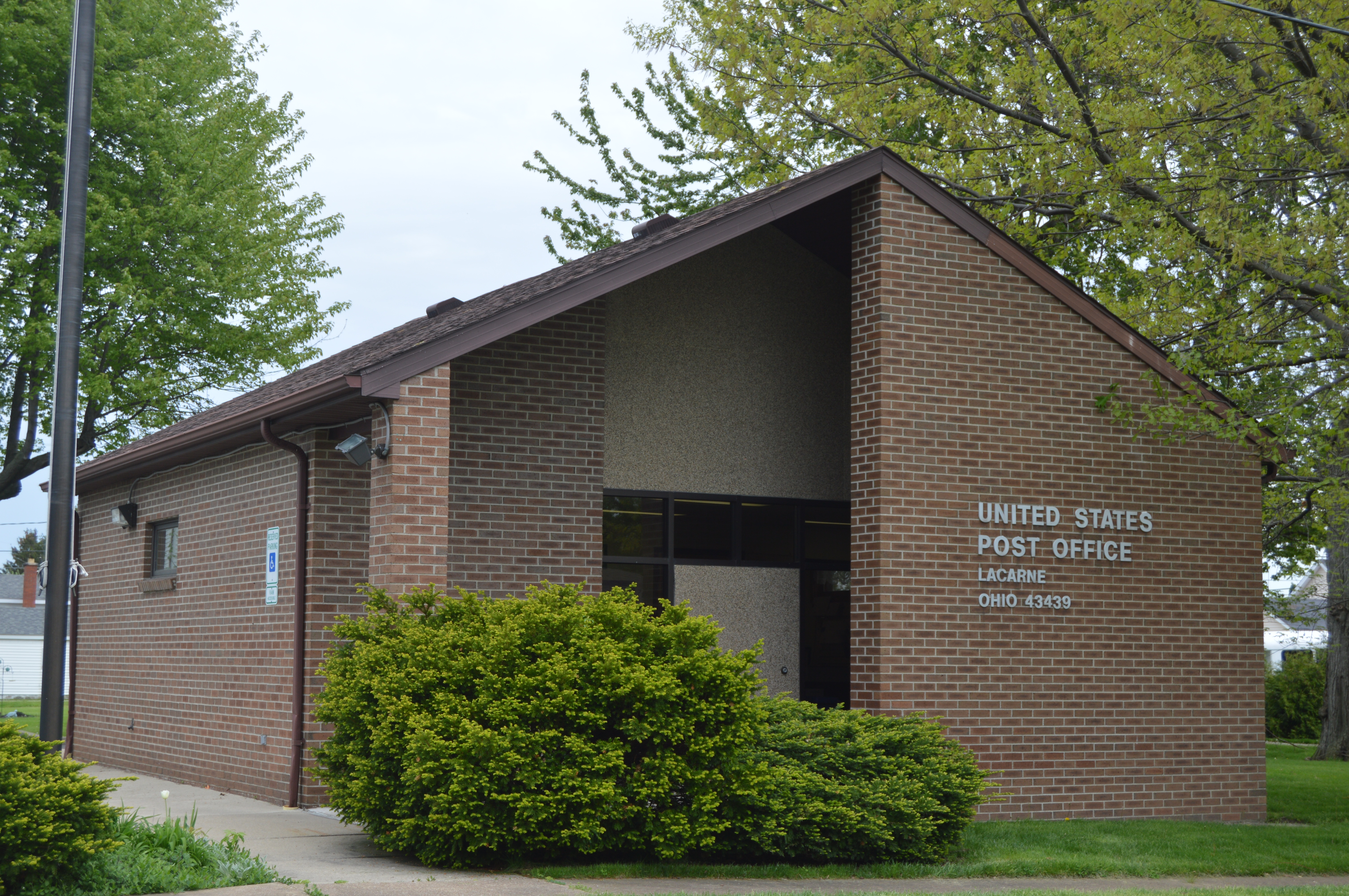 Front of the Lacarne post office, located at 49 N. Monroe Street in Lacarne, Ohio, United States. It was built in 1985.